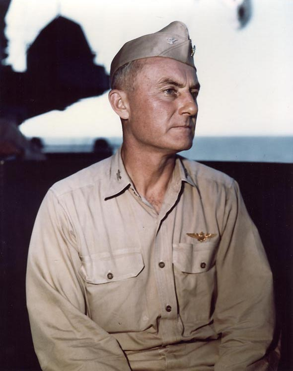 Photo #: 80-G-K-13982 (Color) Captain Ralph A. Ofstie, USN, Commanding Officer of USS Essex (CV-9) On the bridge of his ship, circa February 1944, at the time of U.S. Navy carrier raids on Truk, Caroline Islands. Official U.S. Navy Photograph, now in the collections of the National Archives.